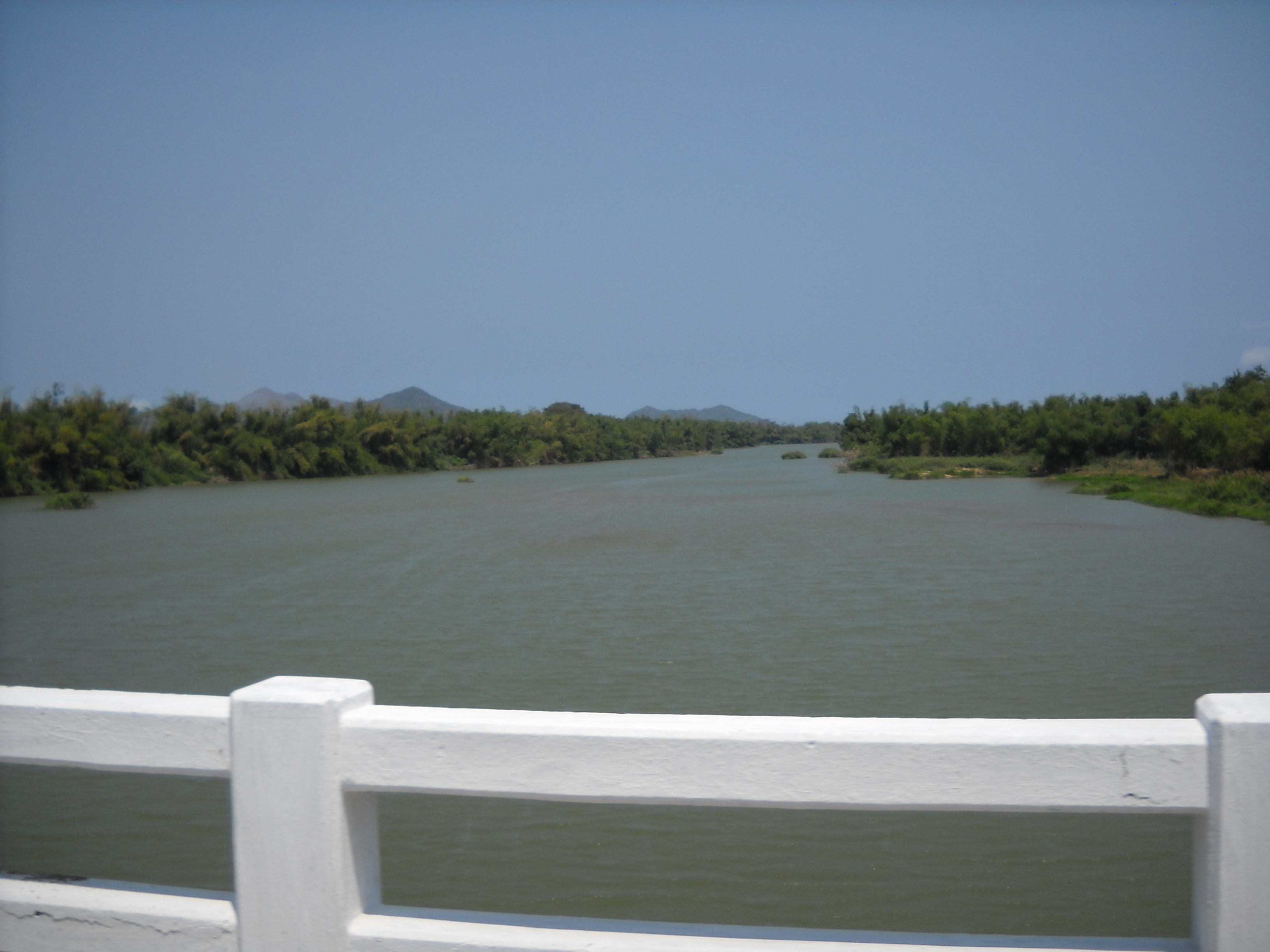 Cai River, Diên Khánh, Khánh Hòa Province, Vietnam